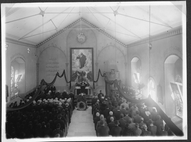 Church of Schneller's Syrian Orphanage, Jerusalem, funeral ceremony for Theodor Schneller; Events in Israel. The movable interior (altarpiece by Georg Bickel, pipe organ, pews) was dismantled in 1951 and is now built in the Christ Church (begun 1959) of Schneller School in Amman, Jordan. The altar was retrieved in 2010 and translated to the Lutheran Ascension Church, Augusta Victoria endowment.